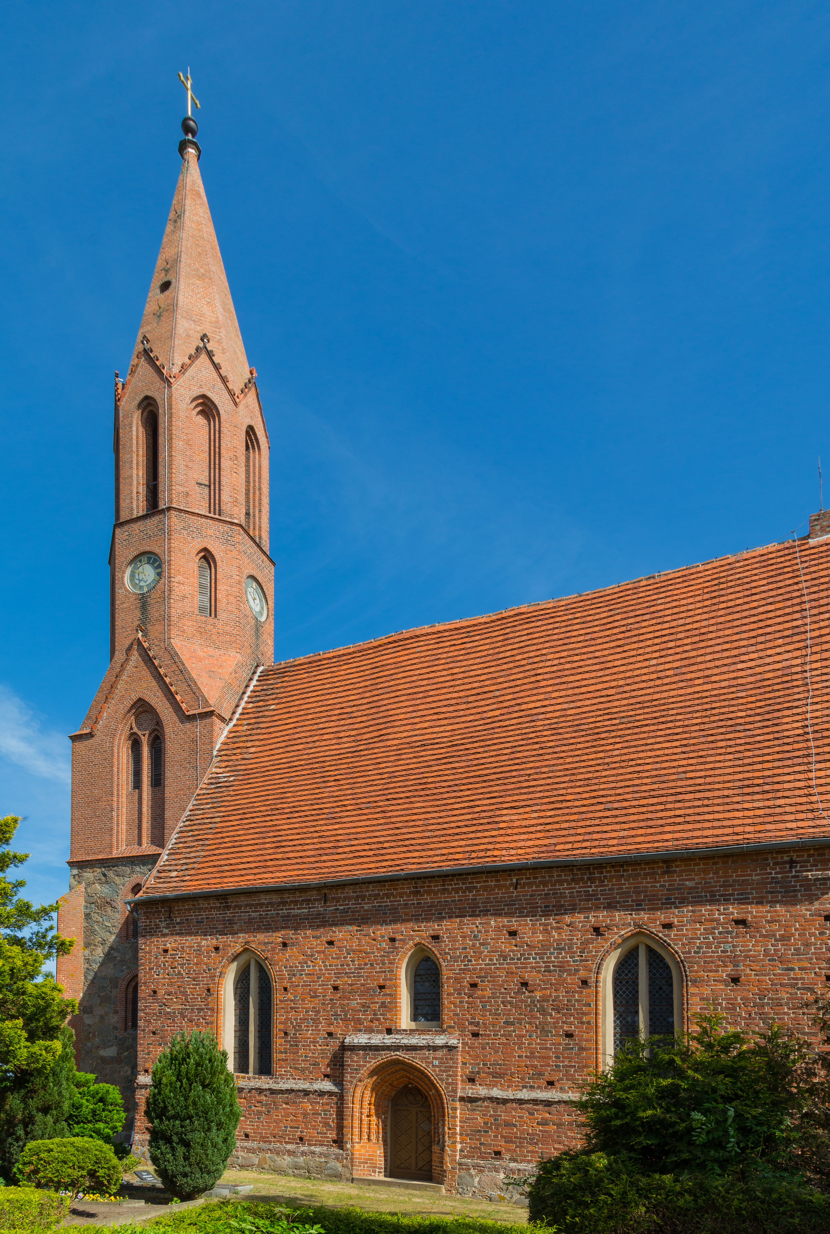 The Protestant St James the Greater Church (St.-Jacobi-Kirche) in Kasnevitz, district of Putbus, Landkreis Vorpommern-Rügen, Mecklenburg-Vorpommern, Germany. The church is a listed cultural heritage monument.